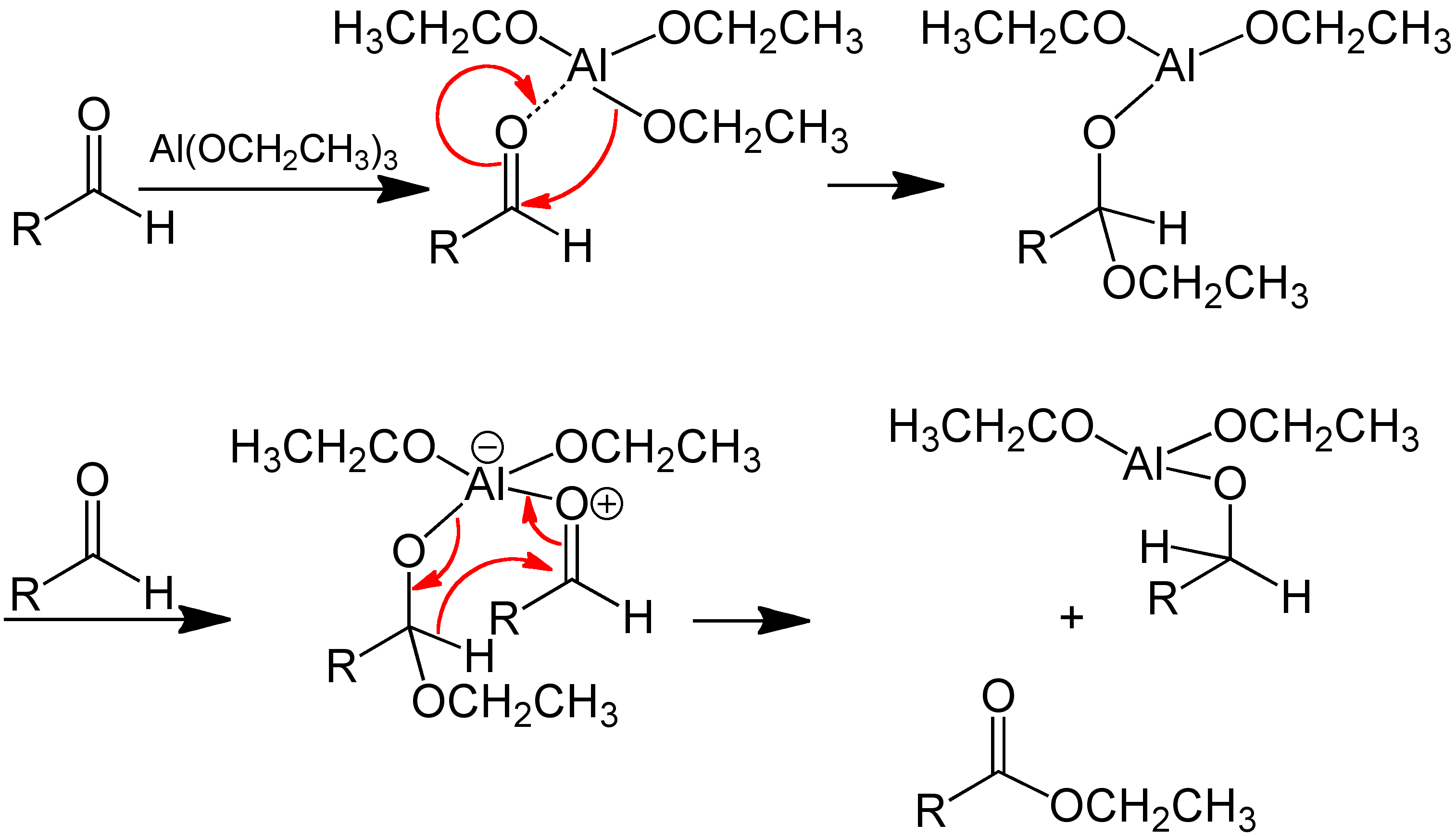 Tischenko_Mechanism